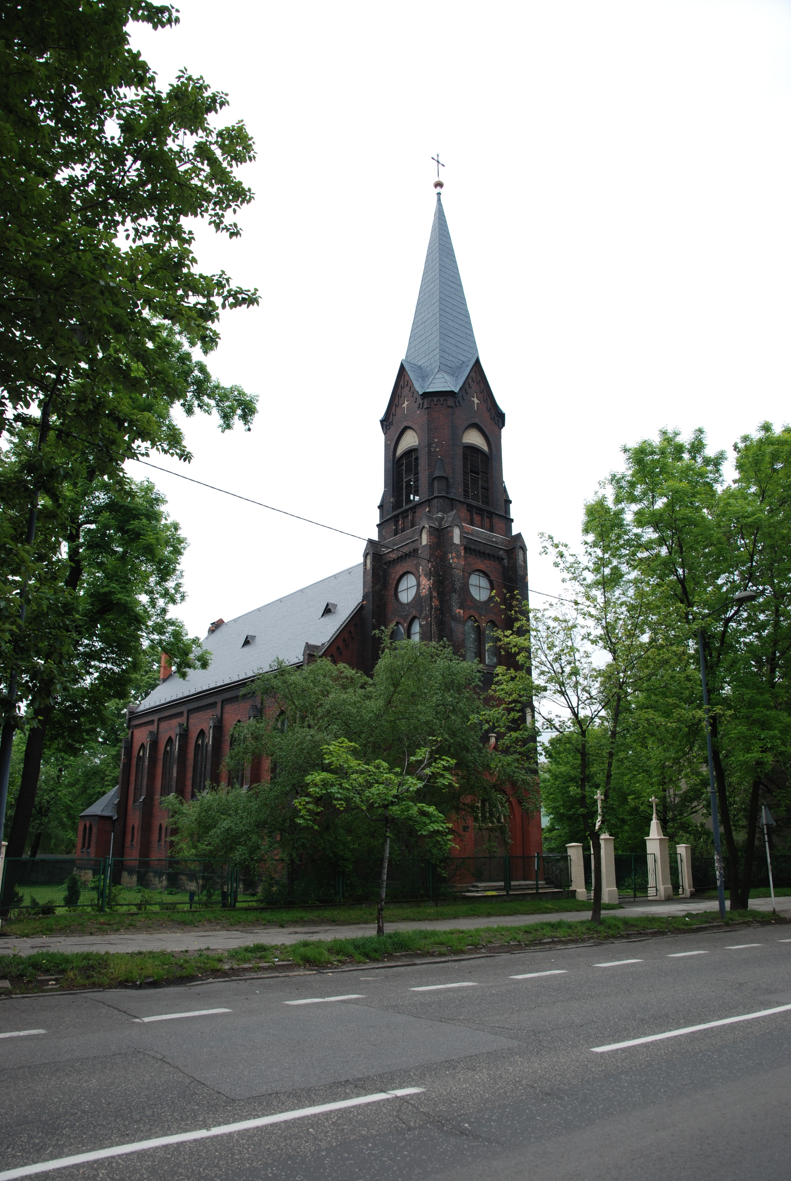 Our Savior Lutheran Church in Szopienice